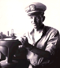 Harry Hess in his Navy uniform as Captain of the assault transport Cape Johnson during World War II.